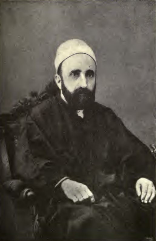 Son of Bahaullah, Mohammed Ali Bahai in 1900.